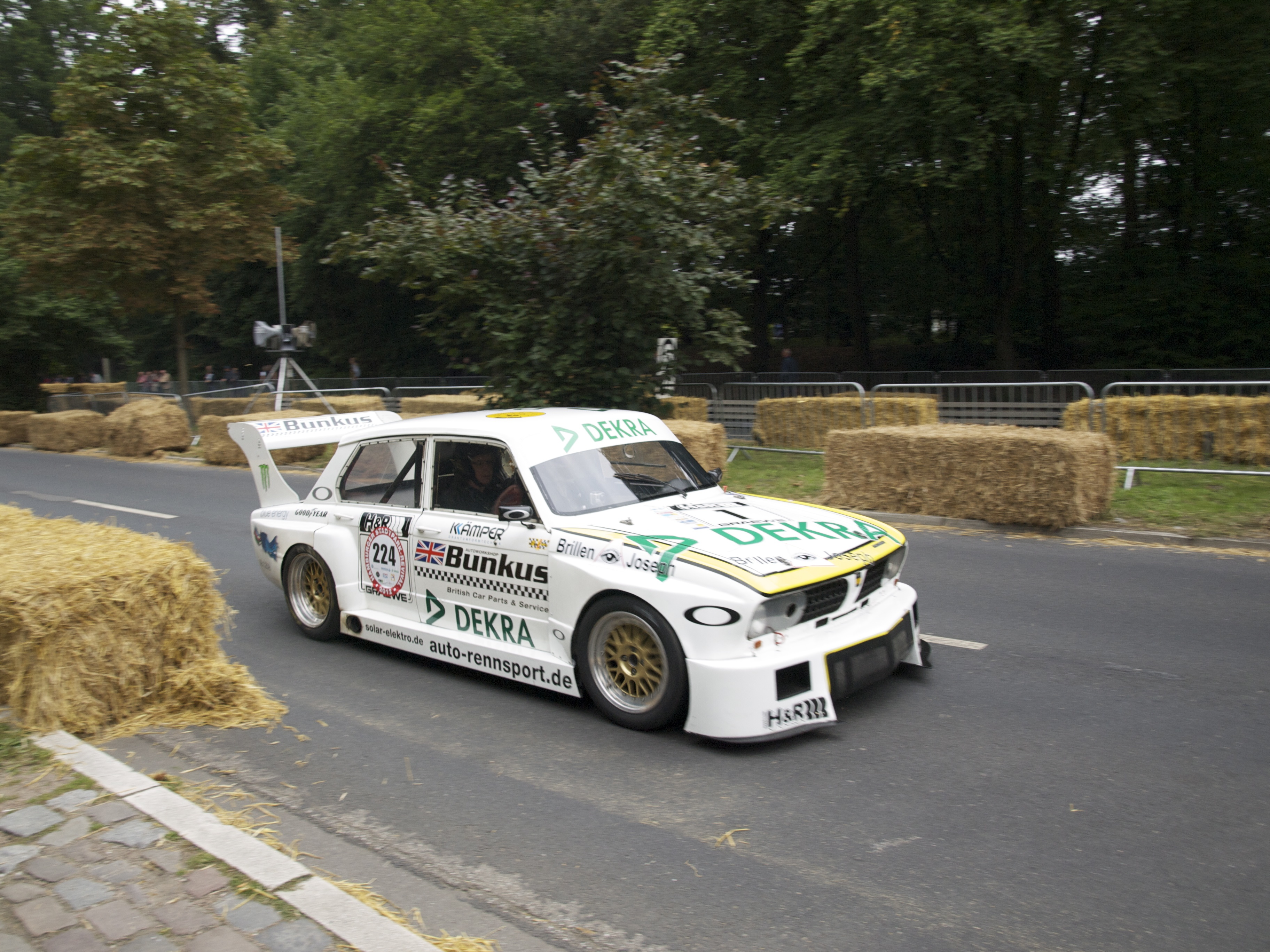 A Triumph Dolomite Sprint Rally model as seen in 2012 at the Stadtpark-Revival in Hamburg